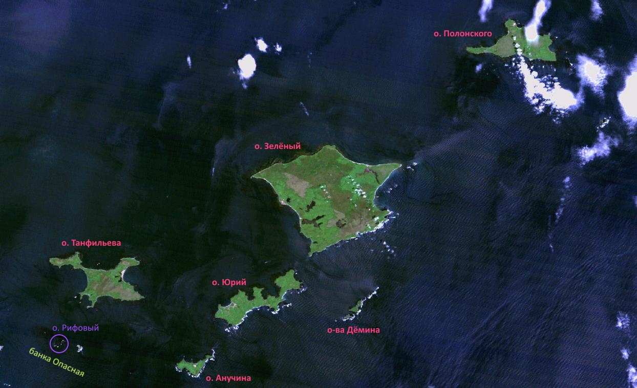 Rifovy Island on the satellite image of the Habomai Islands